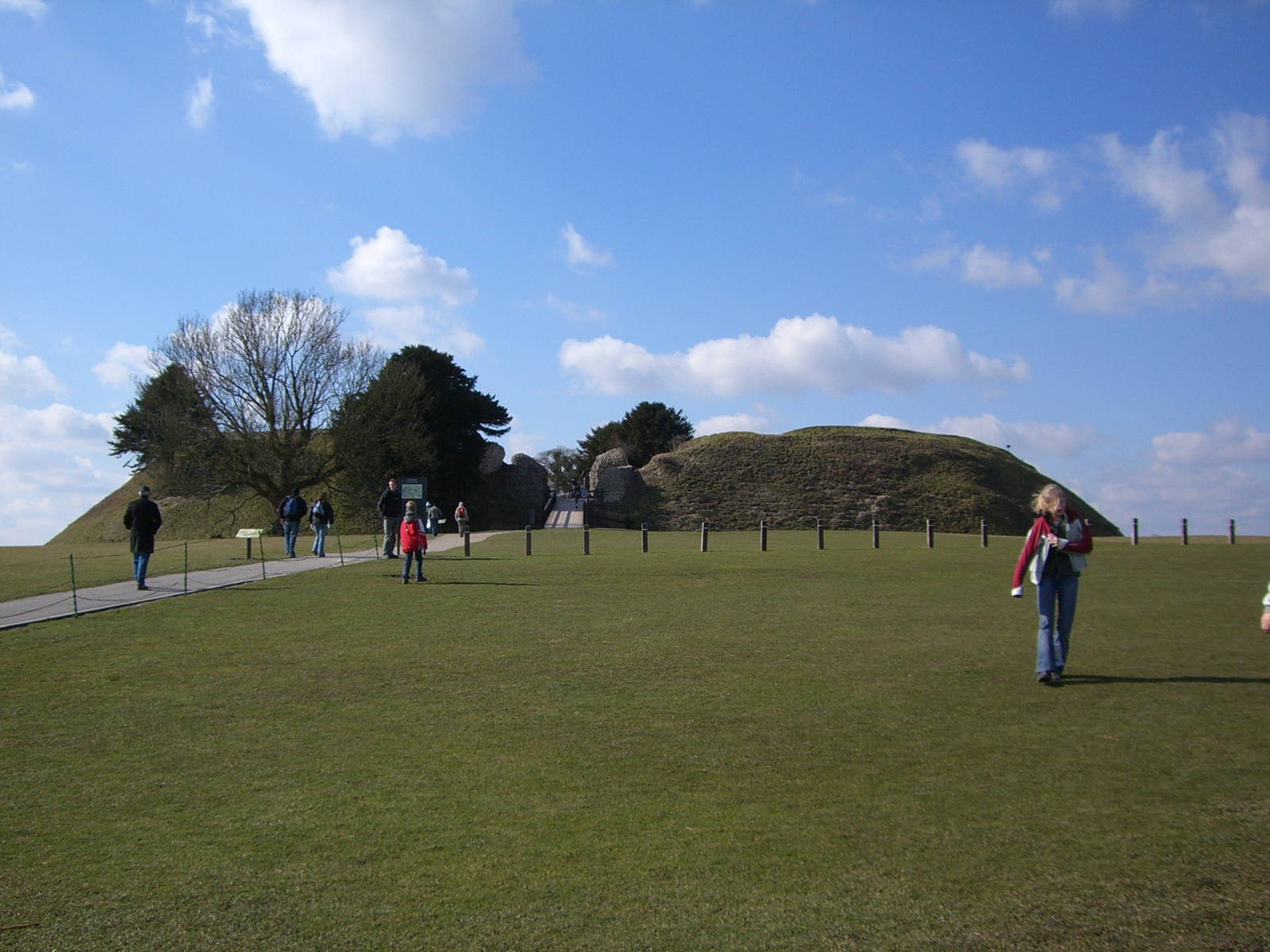 Old Sarum